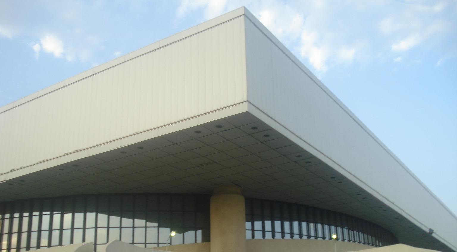 Azadi Indoor Stadium, Iran-Serbia match, 2013 World League First Round